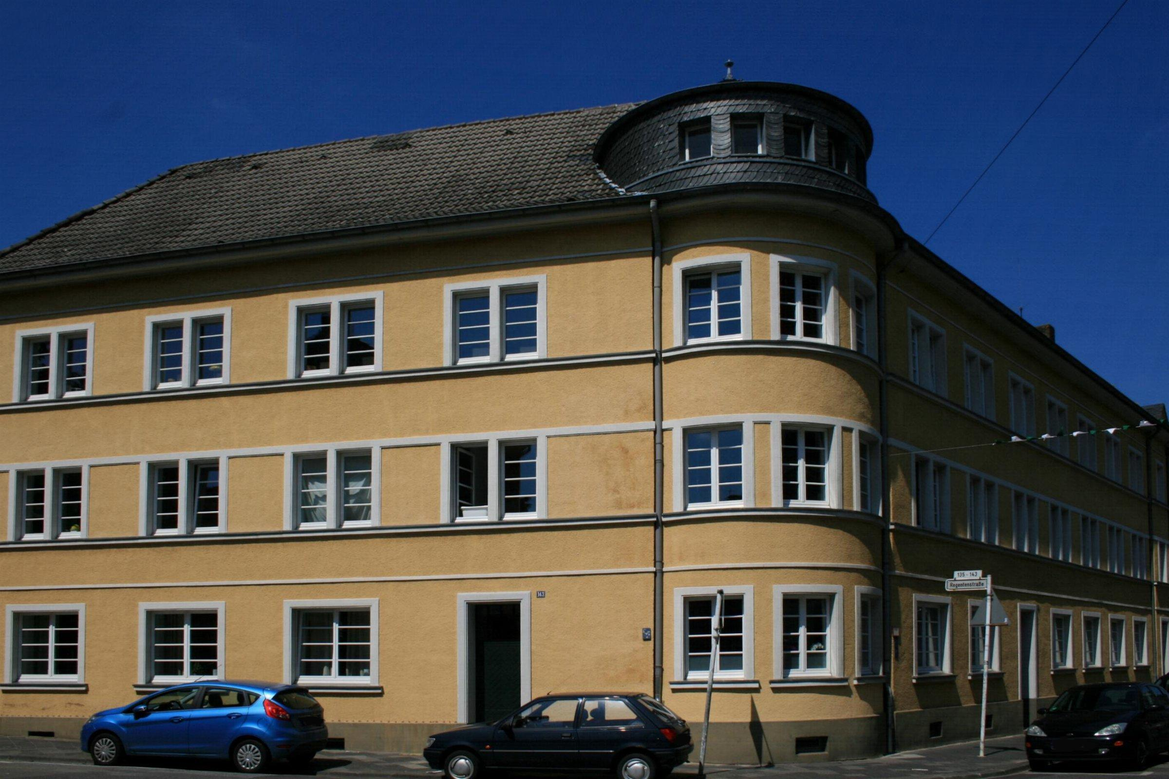 Cultural heritage monument No. R 064 in Mönchengladbach